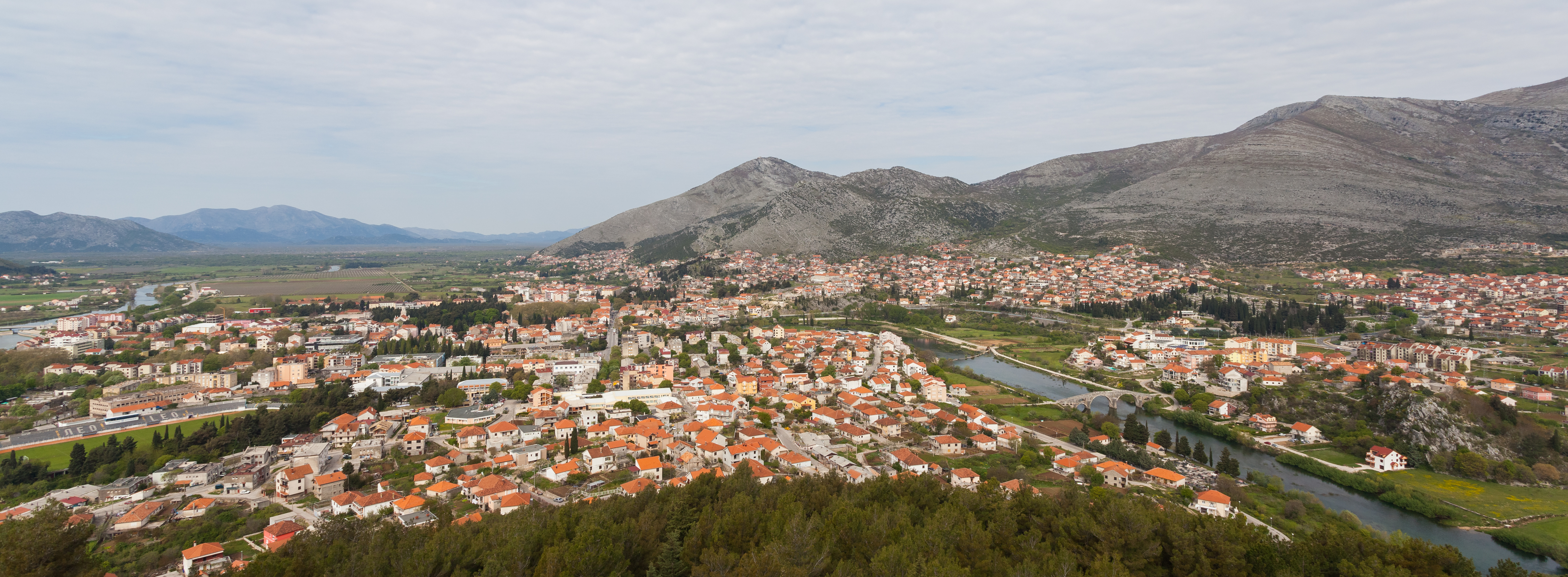 Trebinje, Bosnia and Herzegovina